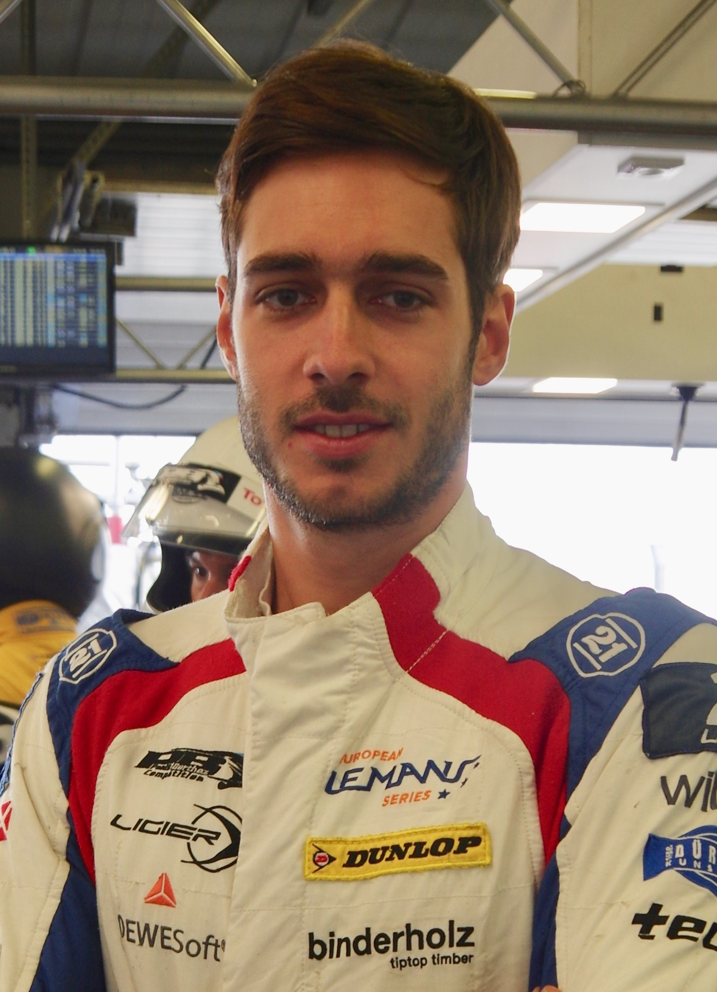 René Binder before the 2019 4 Hours of Silverstone